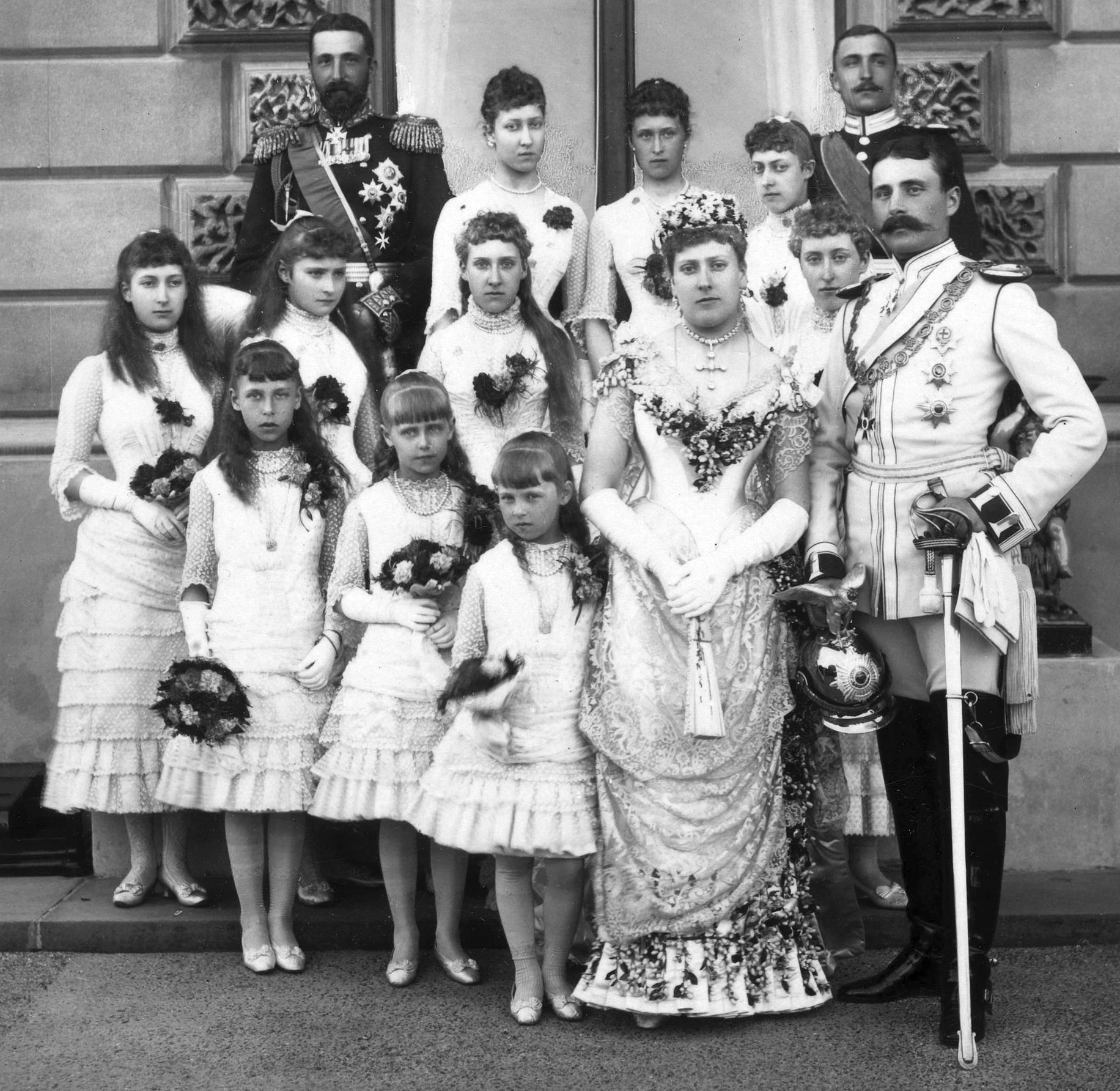 (Back row, left to right) Prince Alexander of Battenberg, Princess Louise of Wales, Princess Irene of Hesse, Princess Victoria of Wales, Prince Franz Josef of Battenberg, (middle row, left to right) Princess Maud of Wales, Princess Alix of Hesse, Princesses Marie Louise and Helena Victoria of Schleswig-Holstein, (front row, left to right) Princesses Victoria Melita, Marie and Alexandra of Edinburgh, Princess Beatrice and Prince Henry of Battenberg. Photograph taken at Osborne.